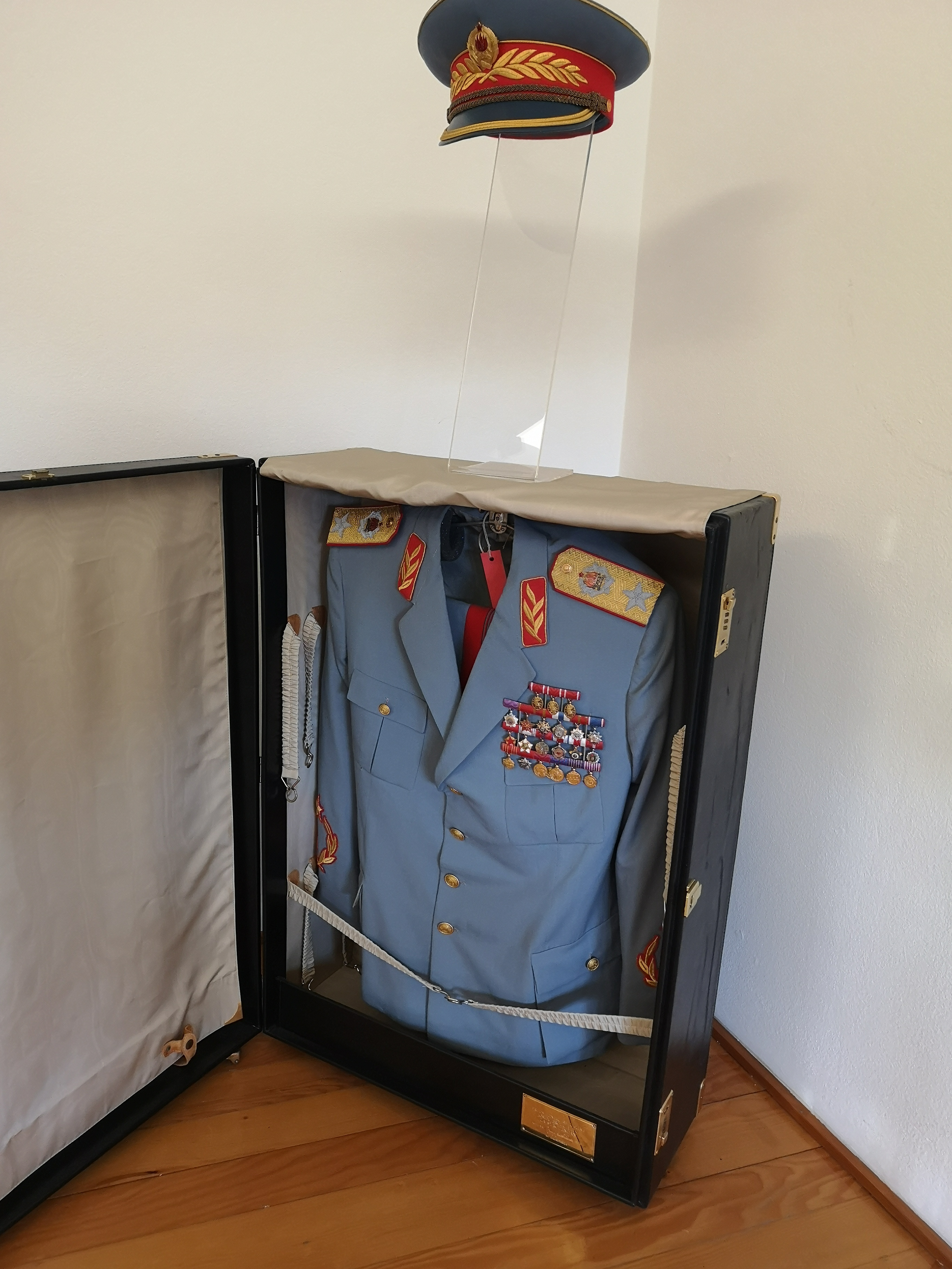 Uniform of Josip Broz Tito